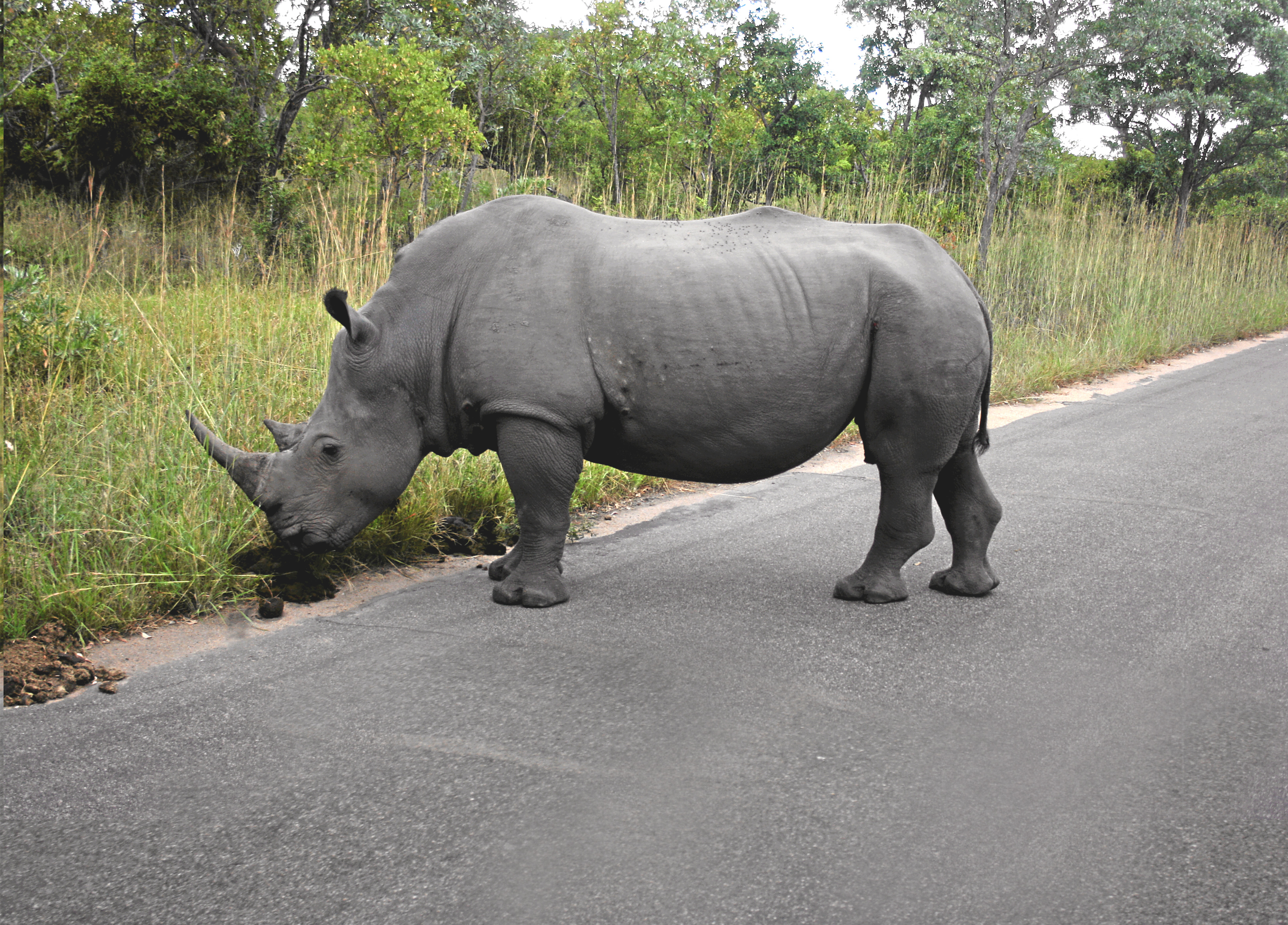 A white rhinoceros (Ceratotherium simum) in Kruger National Park marking its territory.